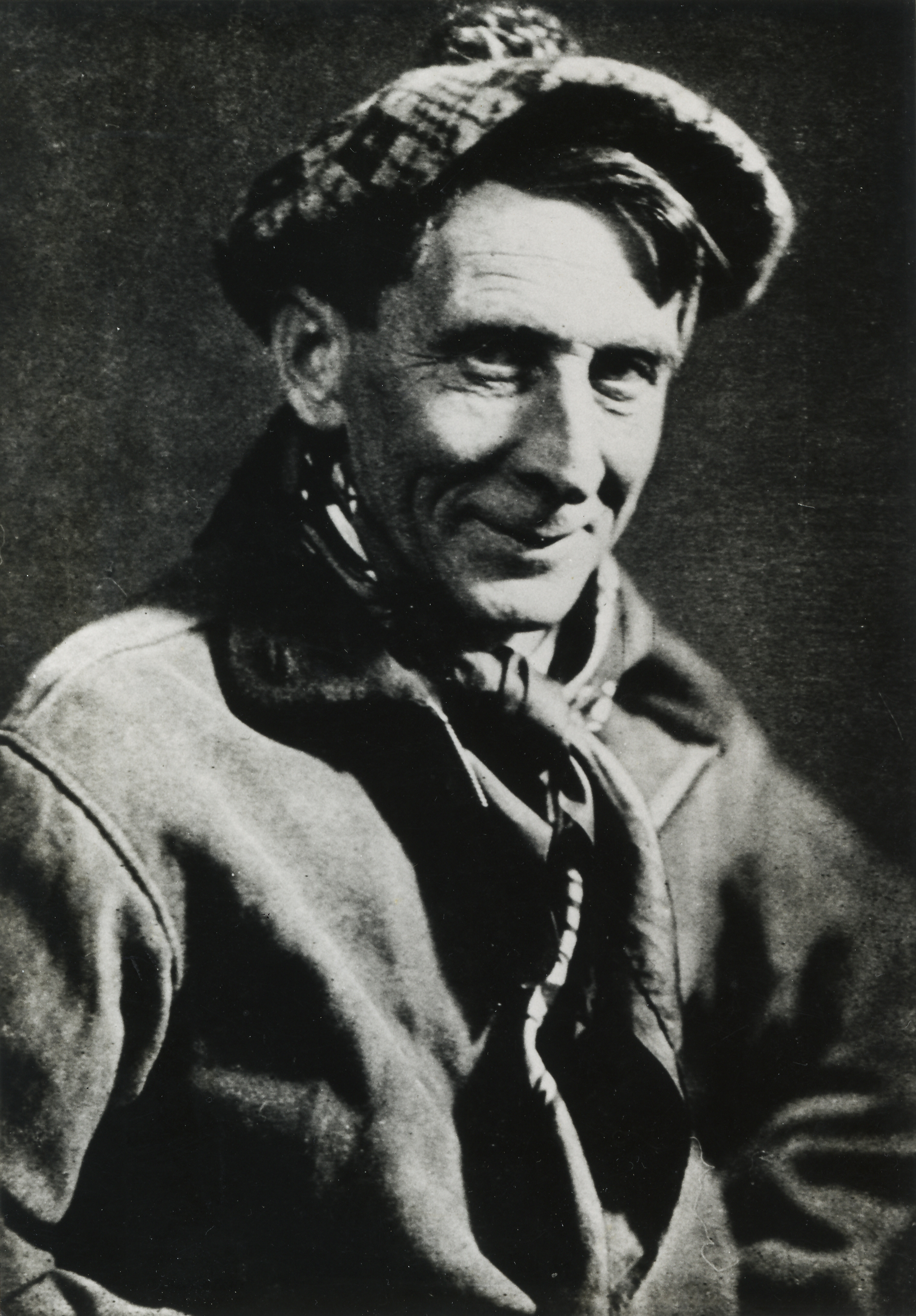 Professor William John Young while at the University of Melbourne